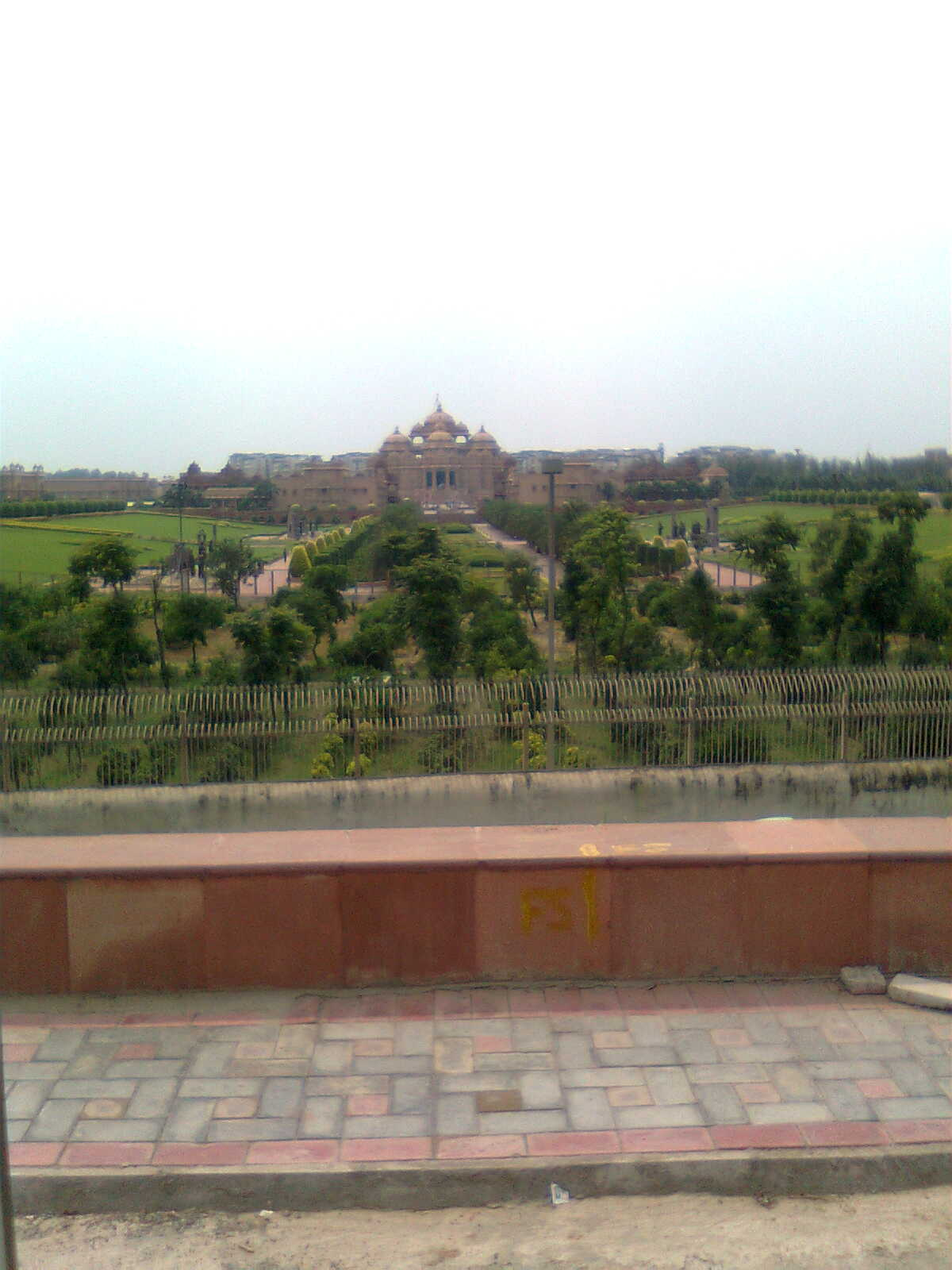 It is situated in New Delhi.